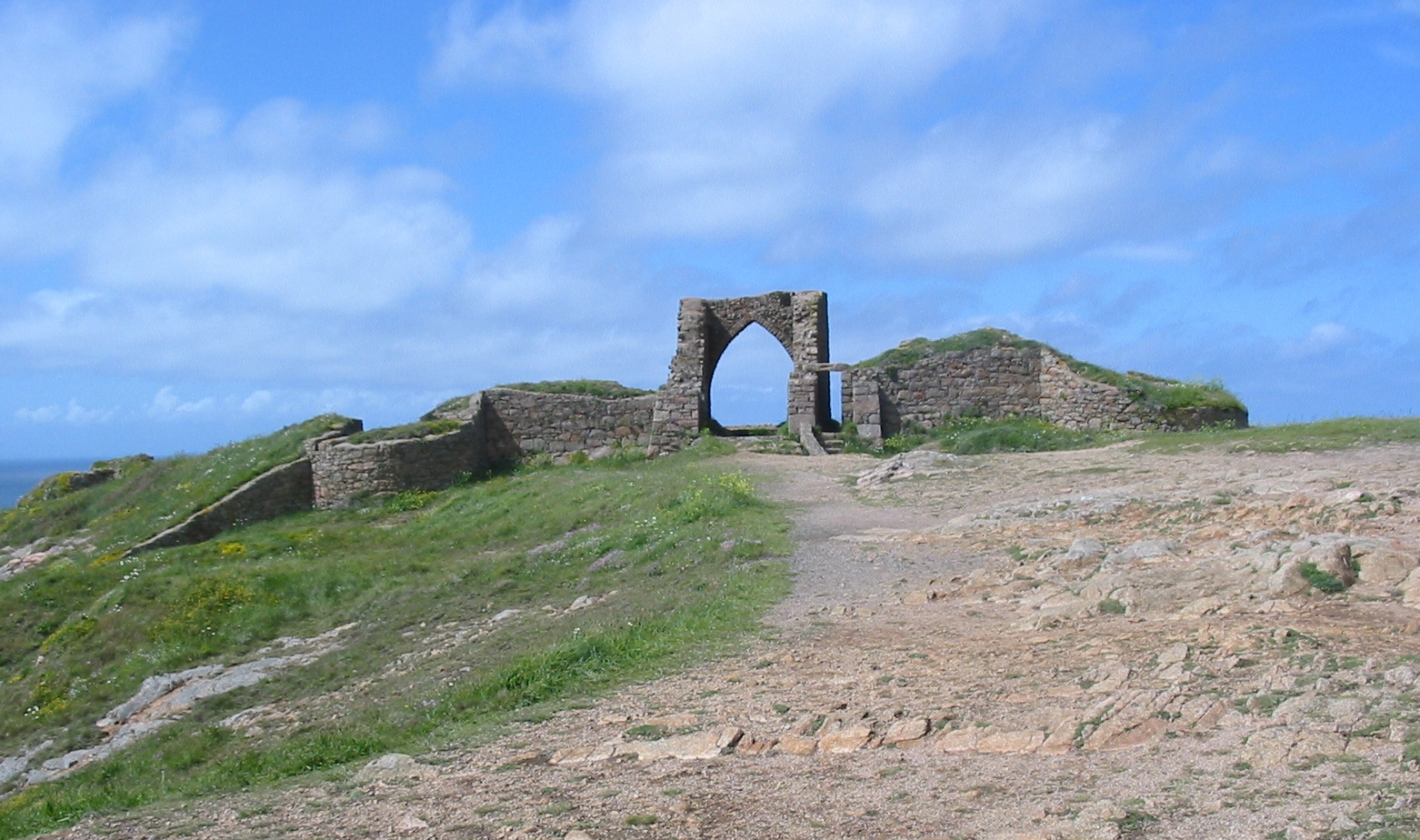 Grosnez Castle (ruins) in Jersey Photo taken by Man vyi with Canon PowerShot A40 on 22/5/2005